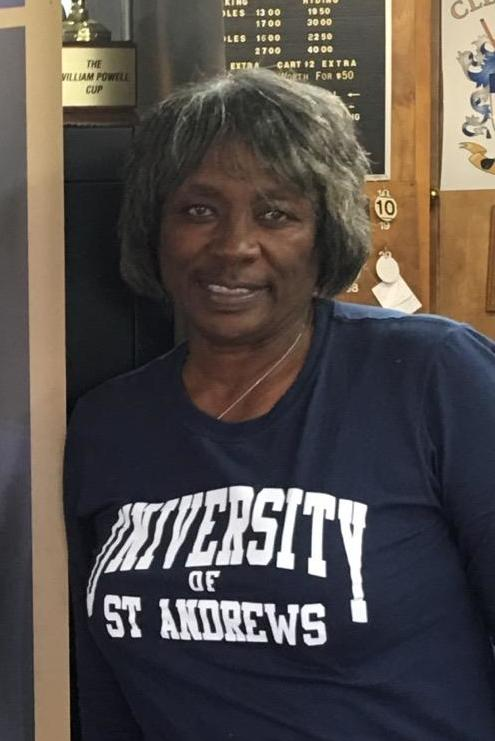 Renee Powell with image of her father, Bill